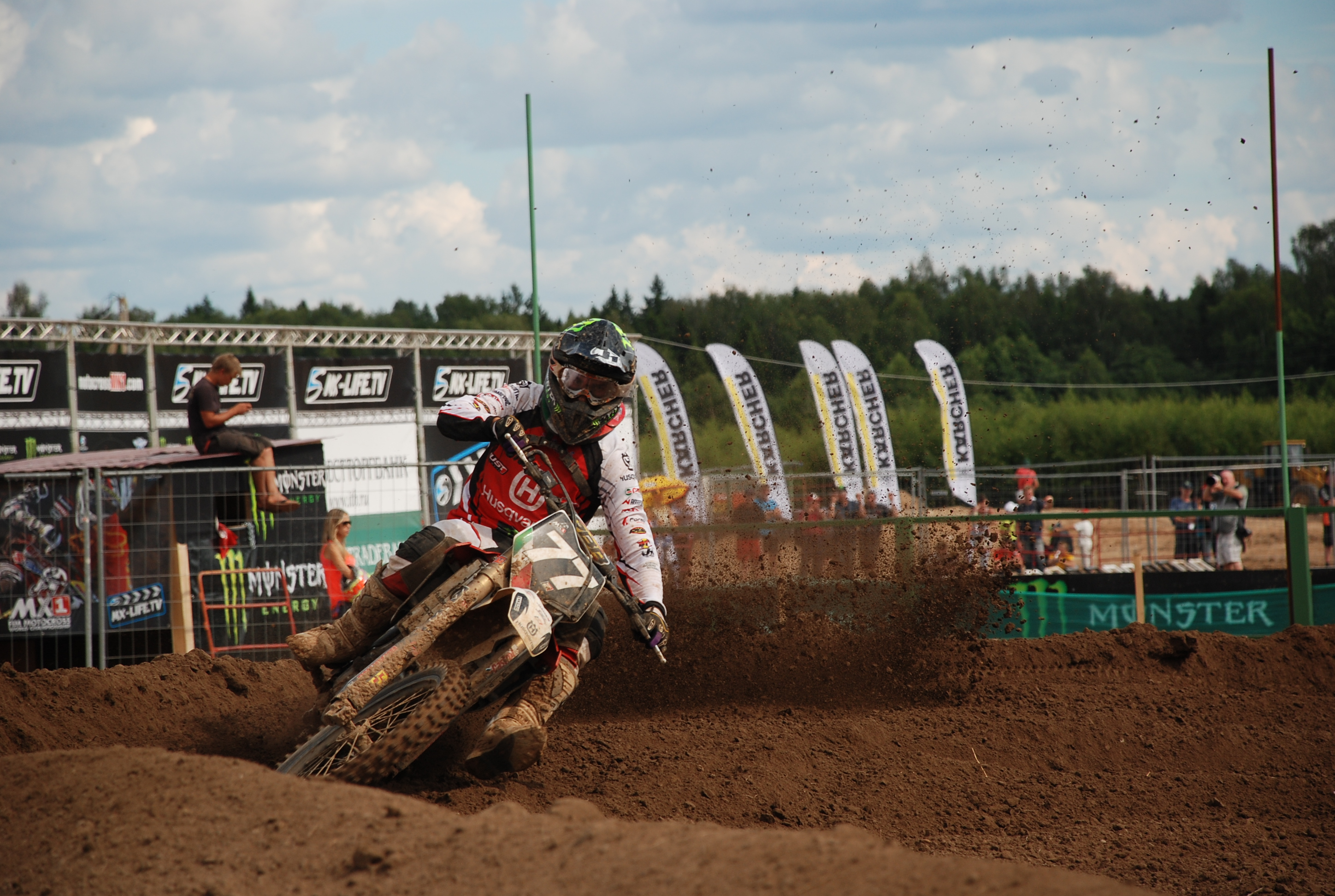 FIM Motocross World Championship 2012 - Russia, Semigorie